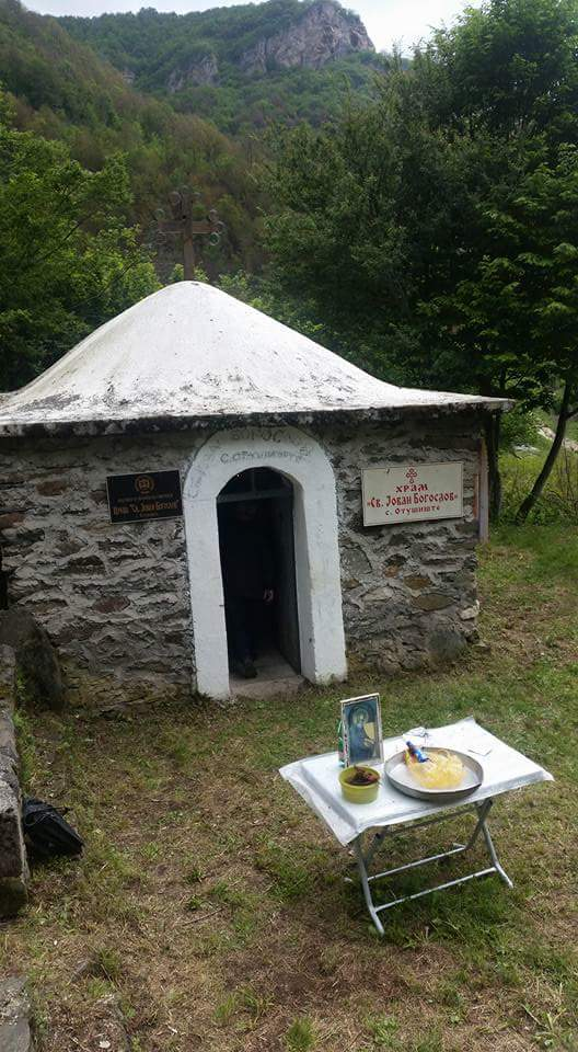 St. John the Apostle Church (in Otušište (Tearce), Macedonia